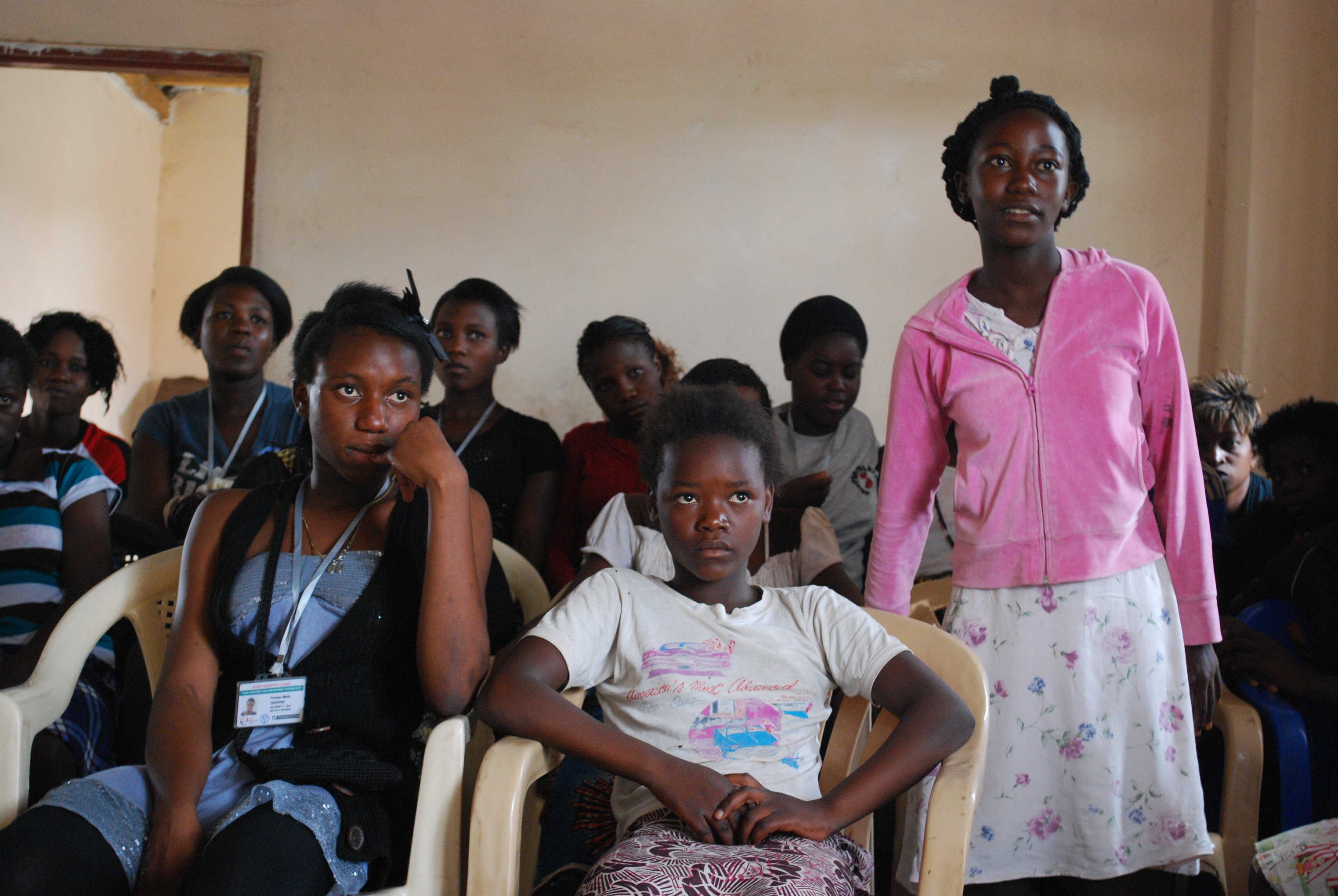 The young girls (pictured) are part of a UK aid scheme in Zambia - the Adolescent Girls Empowerment Programme. The initiative is supporting 10,000 adolescent girls by using ‘safe spaces’ in which girls will meet weekly with a mentor – usually a young woman from the community - to build their social networks, self-esteem, confidence, communication and life skills. Over a quarter of girls aged 15-24 years nationwide in Zambia have experienced violence. And, nearly half of Zambian women have been subjected to violence. International Development Minister Lynne Featherstone met with these young people to listen to their views as part of her trip to mark the 16 days of activism against violence against women and girls. In a recent survey of schoolgirls in Lusaka, Zambia, 53% reported that girls in their school have experienced sexual harassment and 86% reported pressure to do things that they do not want to do in exchange for money. Girls aged 15-24 in Zambia are twice as likely to be infected with HIV as their male counterparts. Follow the visit to Zambia Follow Lynne Featherstone's visit in Zambia on her blog for the Huffington Post UK with live updates on Twitter @DFID_UK and @lfeatherstone. Terms of use This image is posted under a Creative Commons - Attribution Licence, in accordance with the Open Government Licence. You are free to embed, download or otherwise re-use it, as long as you credit the source as 'Emily Travis/DFID'. '